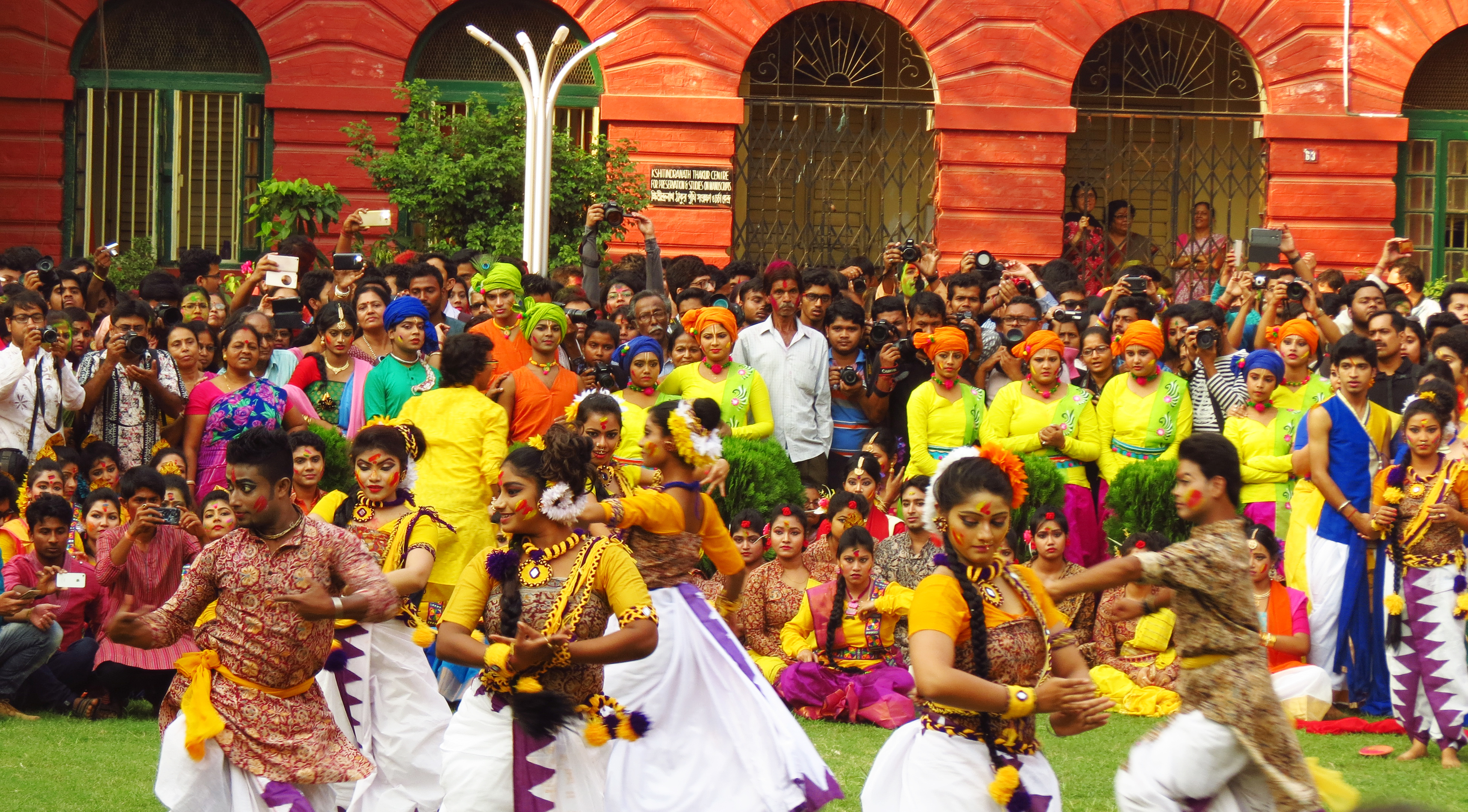 Basanto Utsav is a festival welcoming the arrival of spring and takes place at Jorasanko Thakurbari.